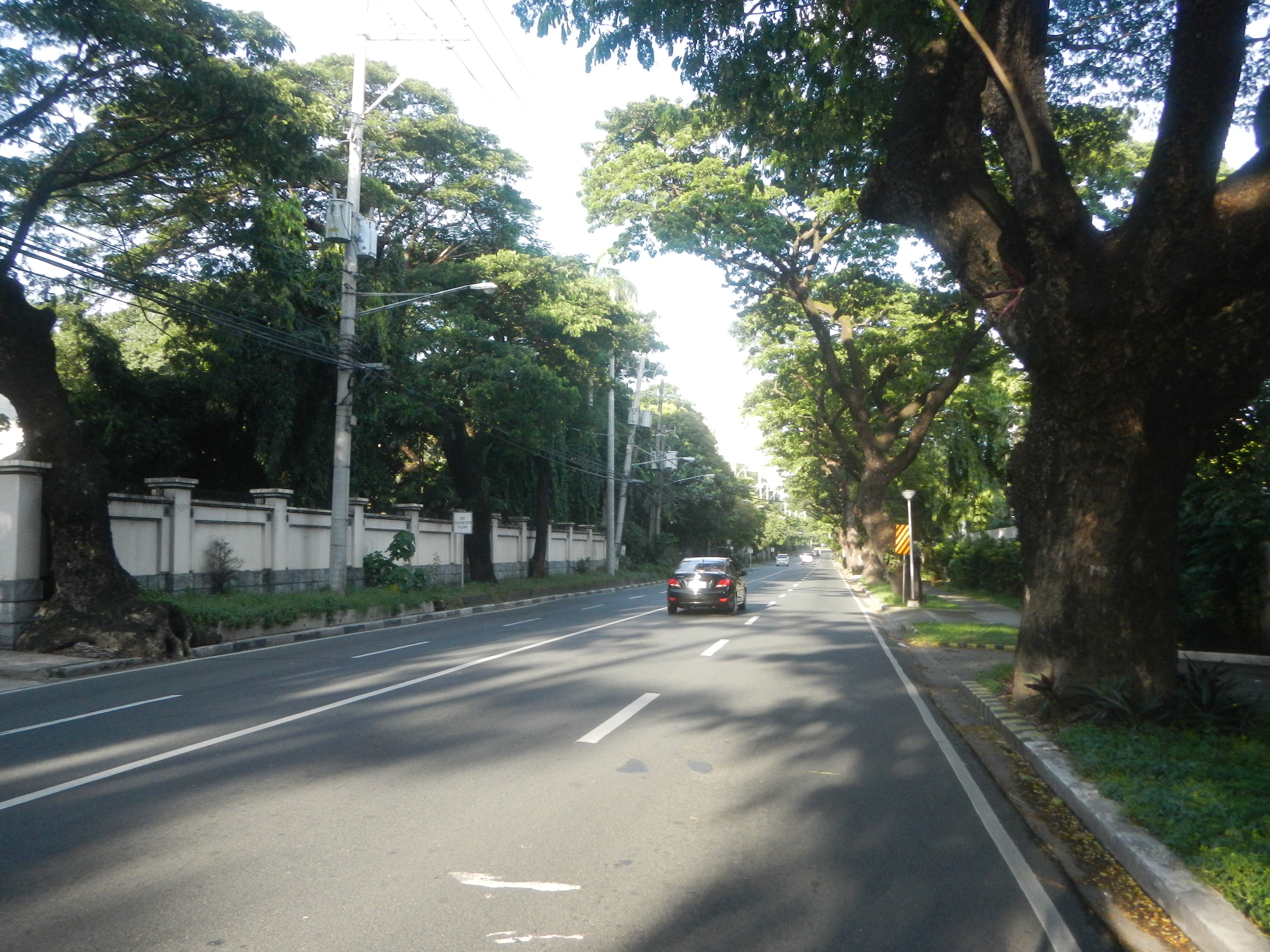 McKinley Road Forbes Park, Makati City (Note: Judge Florentino Floro, the owner, to repeat, Donor Florentino Floro of all these photos hereby donate gratuitously, freely and unconditionally all these photos to and for Wikimedia Commons, exclusively, for public use of the public domain, and again without any condition whatsoever).